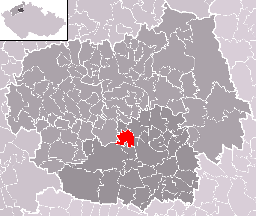 Location of Nové Dvory municipality within Litoměřice District and administrative area of Roudnice nad Labem as a Municipality with Extended Competence.